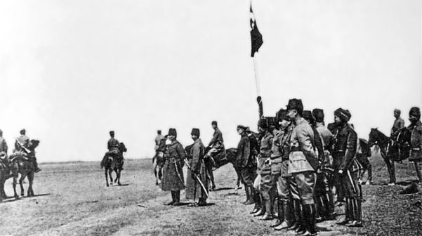 Military exercise of the Turkish First Army at Ilgın on April 1, 1922.